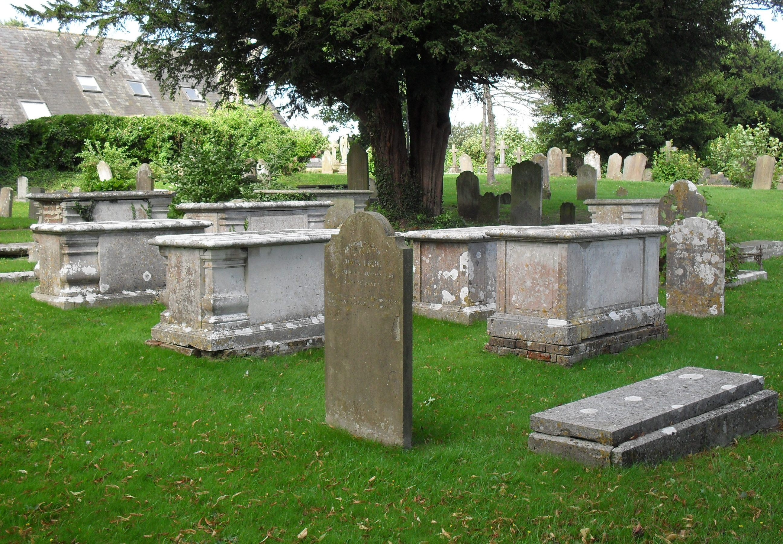 Tombs at All Saints Church, Patcham, City of Brighton and Hove, East Sussex. Listed at Grade II by English Heritage (IoE Code 480062)